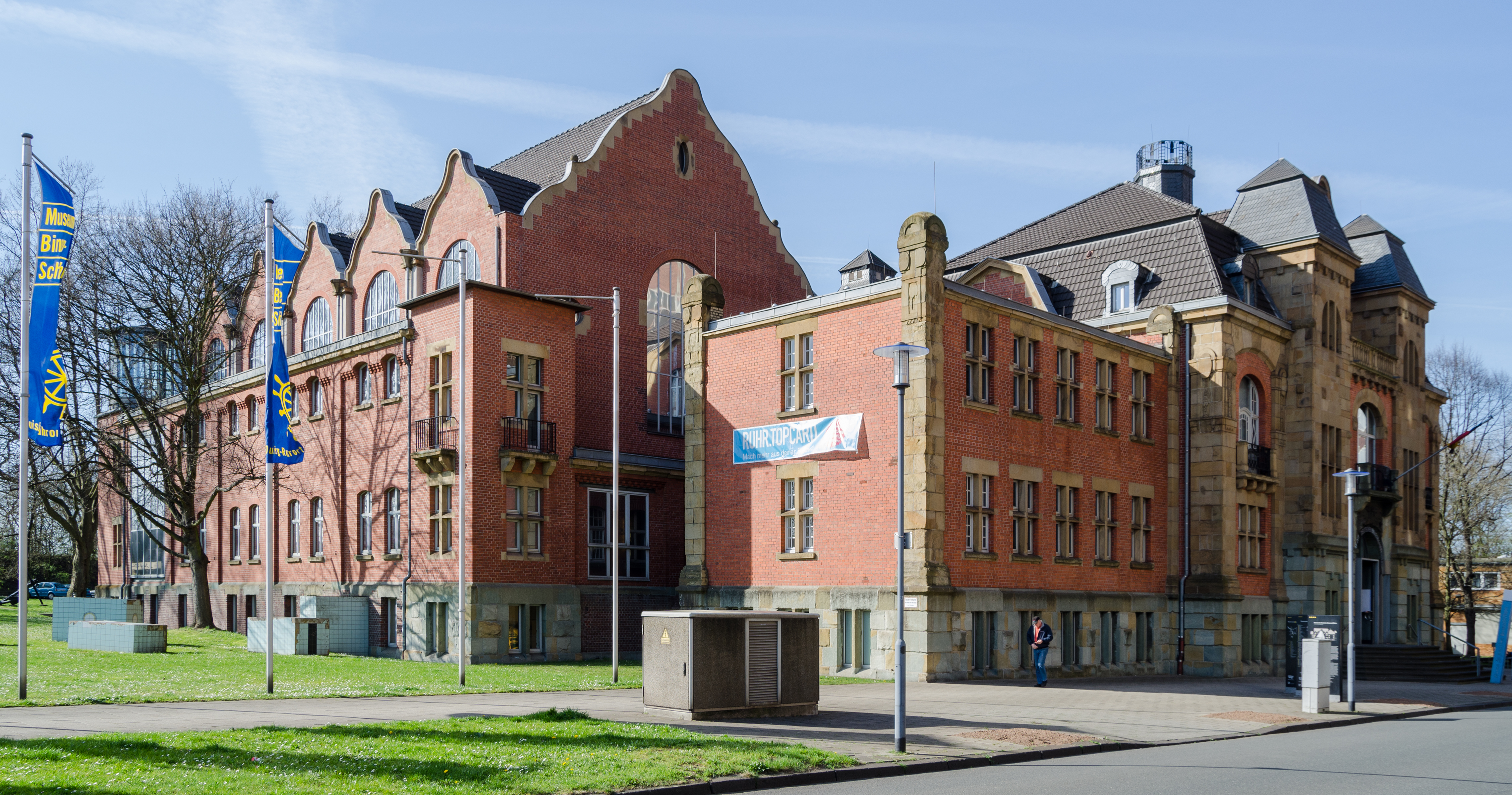 Duisburg (North Rhine-Westphalia, Germany) – borough Homberg/Ruhrort/Baerl, district Ruhrort – German Inland Waterways Museum